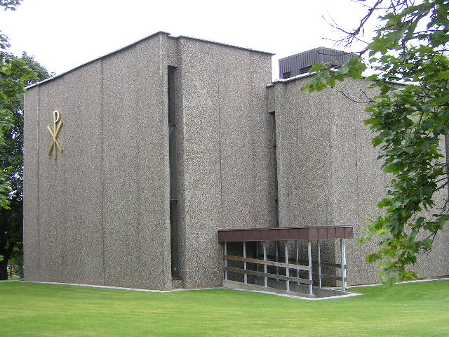 Vaggeryd Church